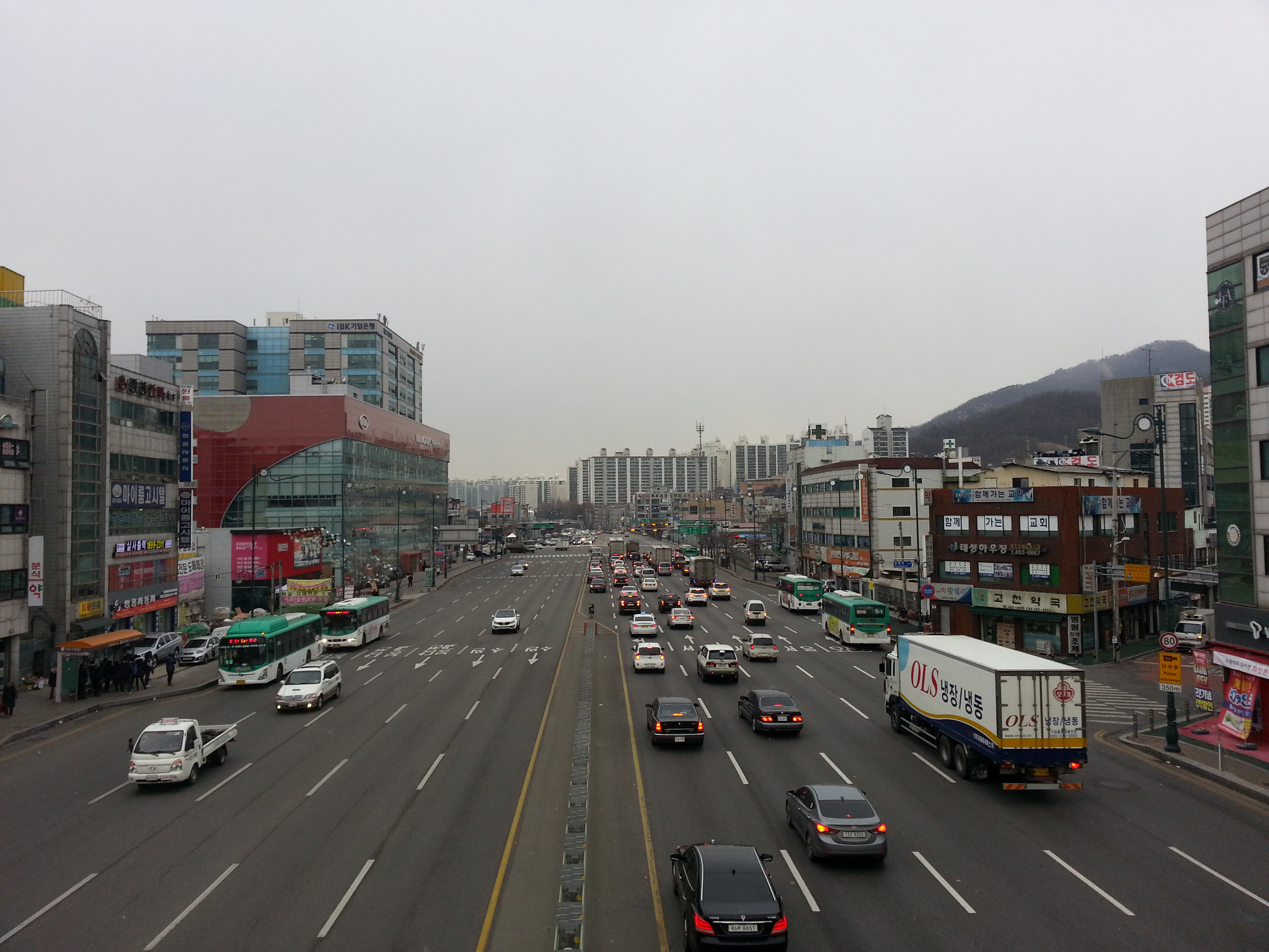 Gyeongsu-daero Blvd, part of National route No. 1 in South Korea. Taken in Uiwang-si